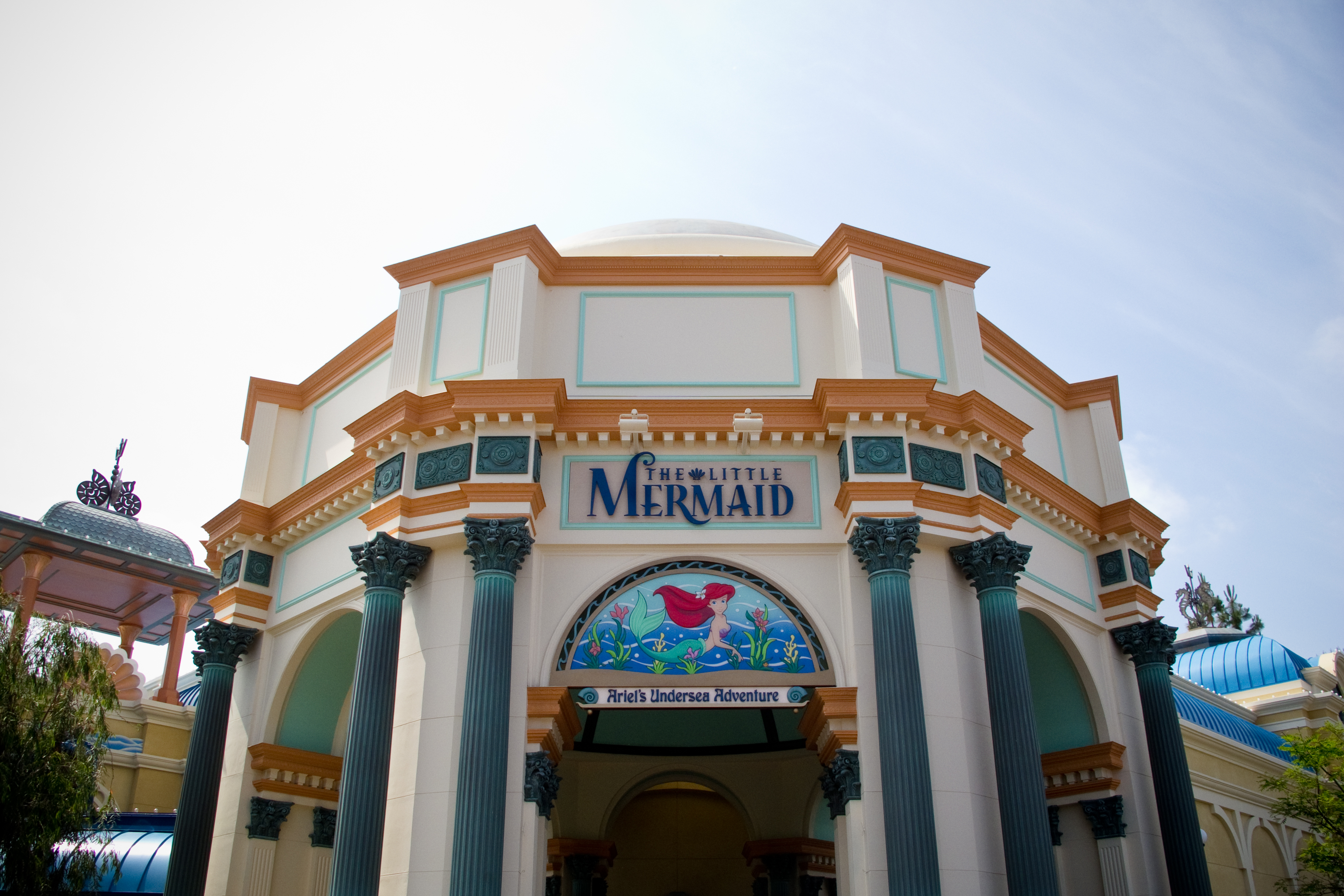 Some of the exterior of the new Little Mermaid ride at Disney California Adventure.